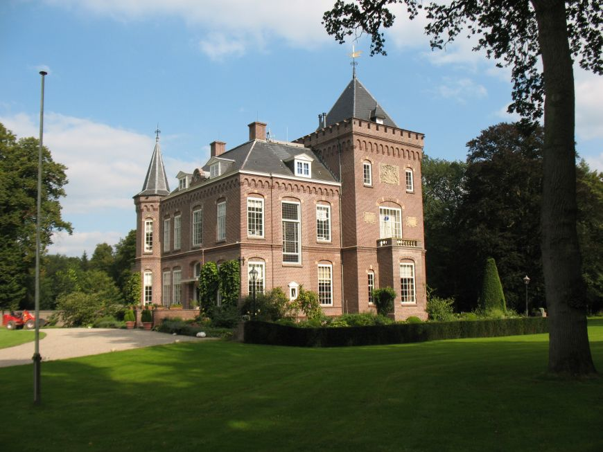 Front_Prattenburg_Rhenen.jpg